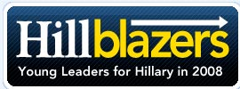 Hillblazers